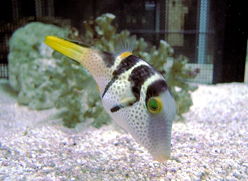 シマキンチャクフグ Canthigaster valentini Saddled toby Location 神戸市須磨区 須磨海浜水族園; Suma Aqualife Park, KOBE, Japan Copyright OpenCage